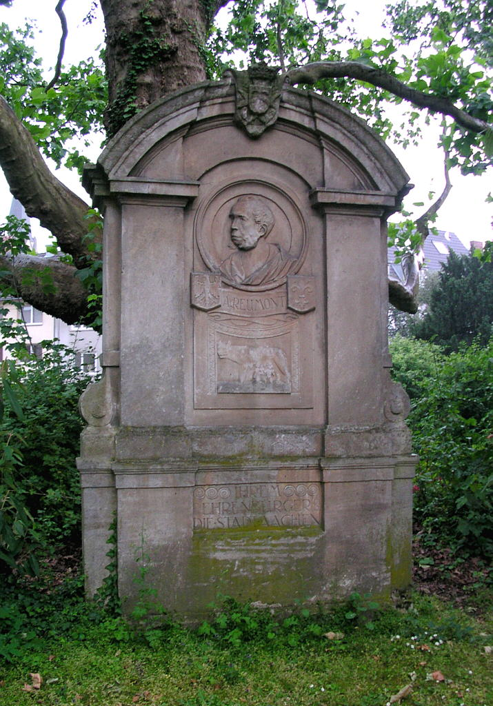 Aachen, memorial for Alfred von Reumont